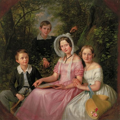 Portrait of the sons and daughters of the jeweller Reiss